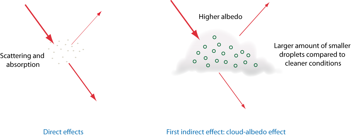 This diagram illustrates the direct and one of the indirect mechanisms in which aerosols affect the Earth's radiative budget.